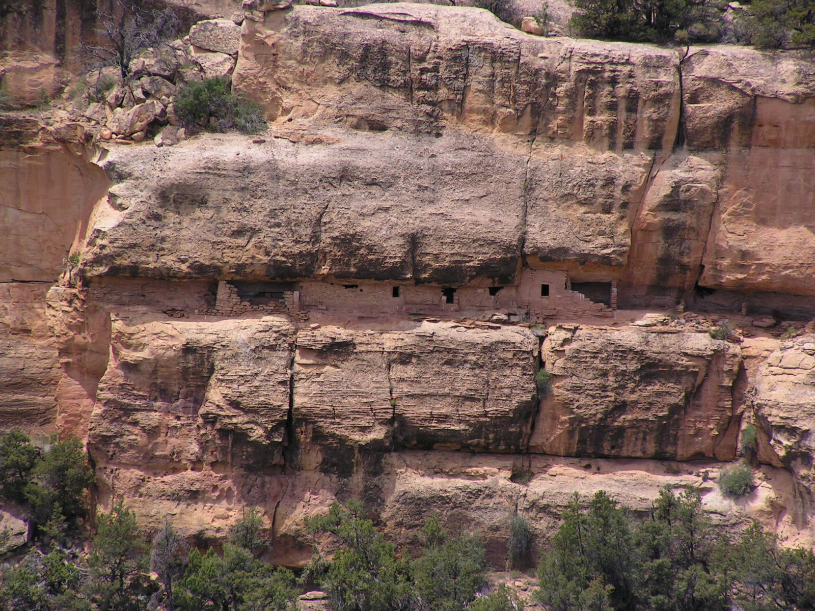 House of Many Windows ruin, Mesa Verde National Park, Colorado.